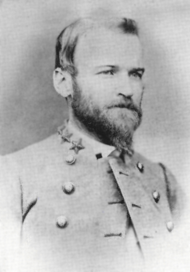 Scanned in 1994 from 1895 Pictorial History of Confederate Officers.